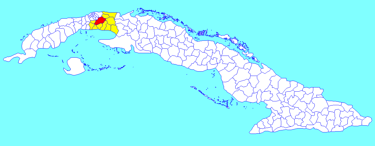 A map of the municipality of San José de las Lajas (shown in red) within the Province of Mayabeque (yellow) and Cuba.